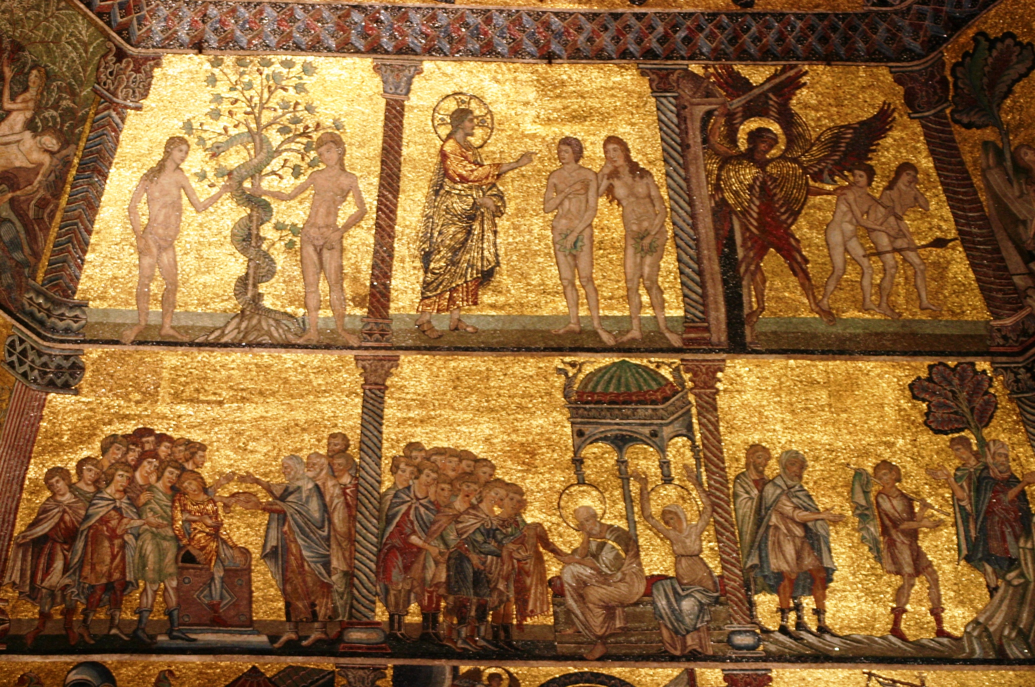 Mosaics inside Florence Baptistry depicting Adam & Eve